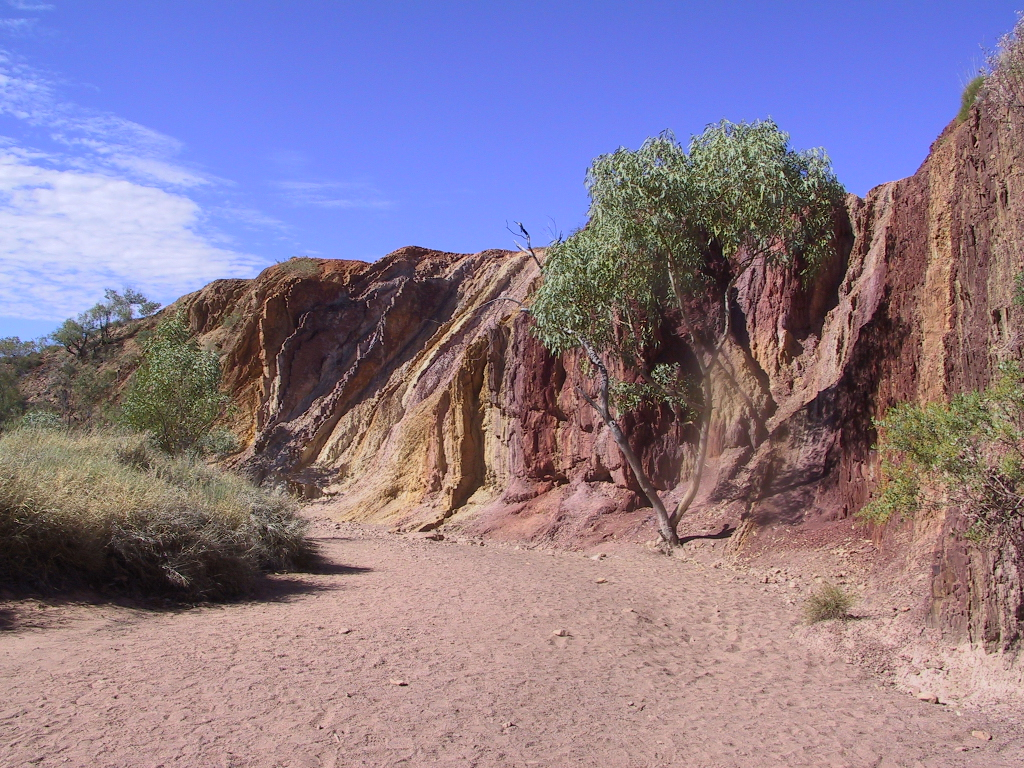 Aboriginal Ochre Pits on the Larapinta Trail, Northern Territory, Australia, 2004.